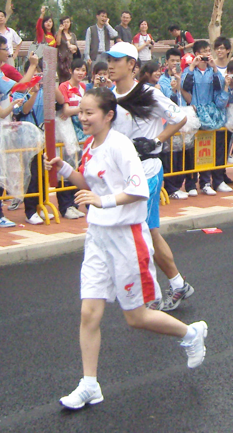 2008 Summer Olympics Torch in Shatin, Hong Kong.